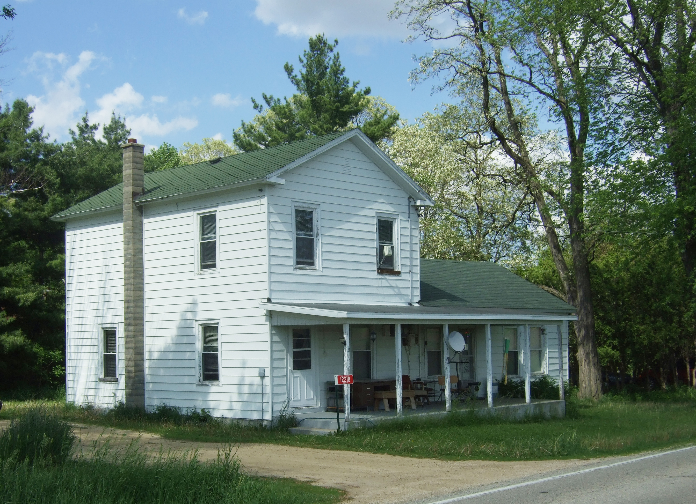 Cooksville Cheese Factory, Cooksville, Rock County, Wisconsin. Added to the National Register of Historic Places in 1980.